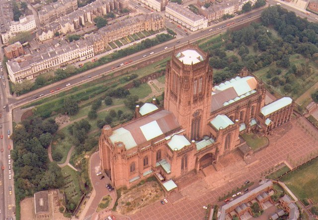 Liverpool Cathedral This unusual picture was taken at a height of 300m using an airship, owned by Virgin Lightships Ltd, which had been branded 'Orange' and was on a 3-day publicity visit flying over the City, from its (temporary) base at Speke airport.